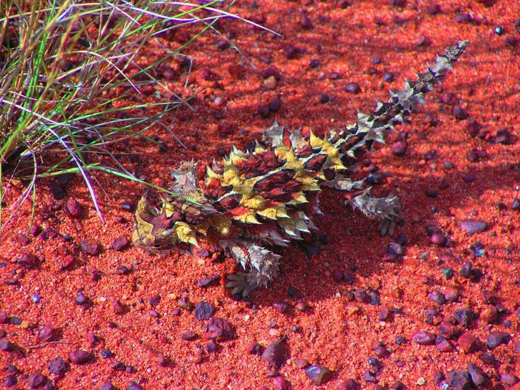 Thorny Devil (Moloch horridus), near Alice Springs, Northern Territories, Australia